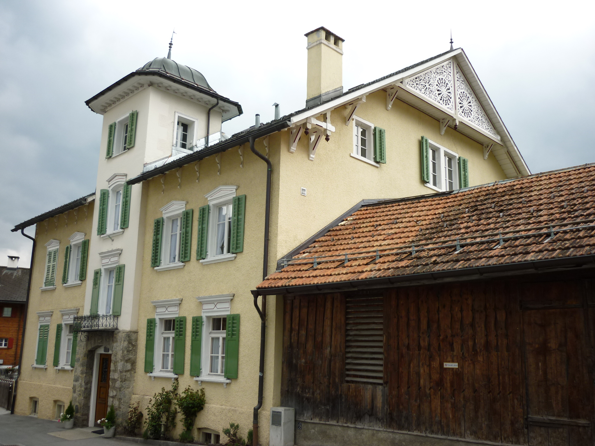 House Latour, Brigels GR, Switzerland